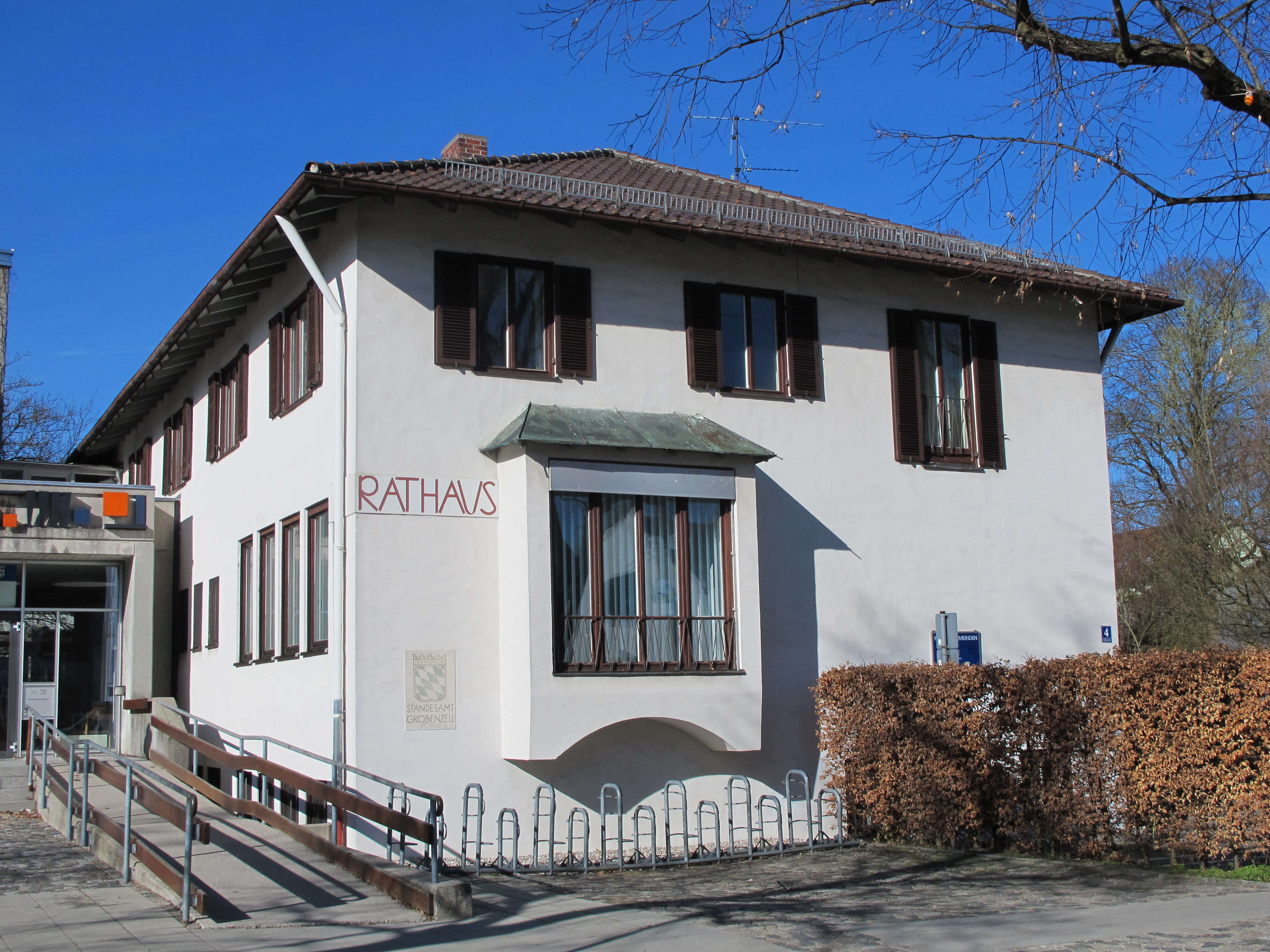 townhall Gröbenzell